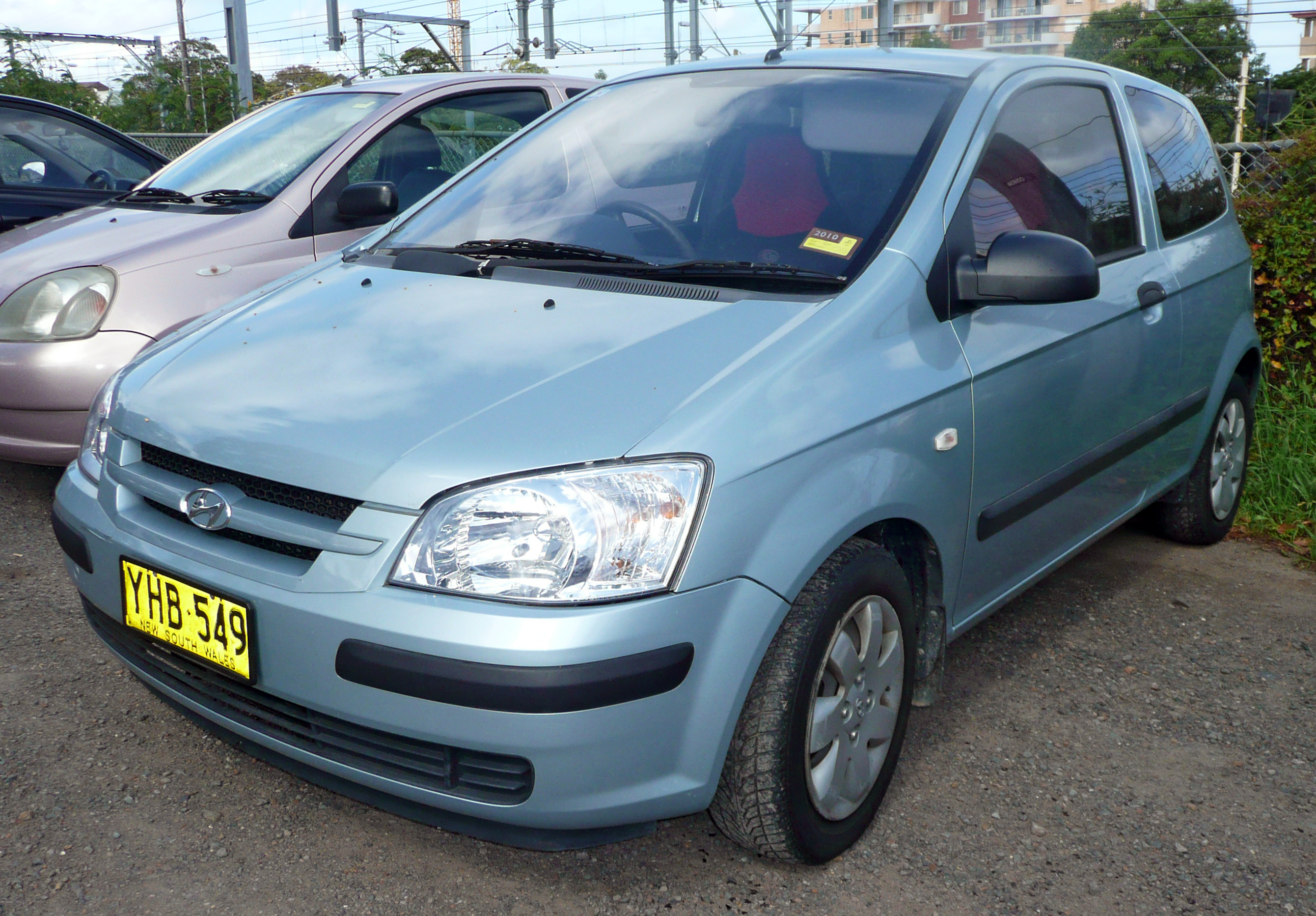 2002 Hyundai Getz (TB) GL 3-door hatchback. Photographed in Sutherland, New South Wales, Australia.